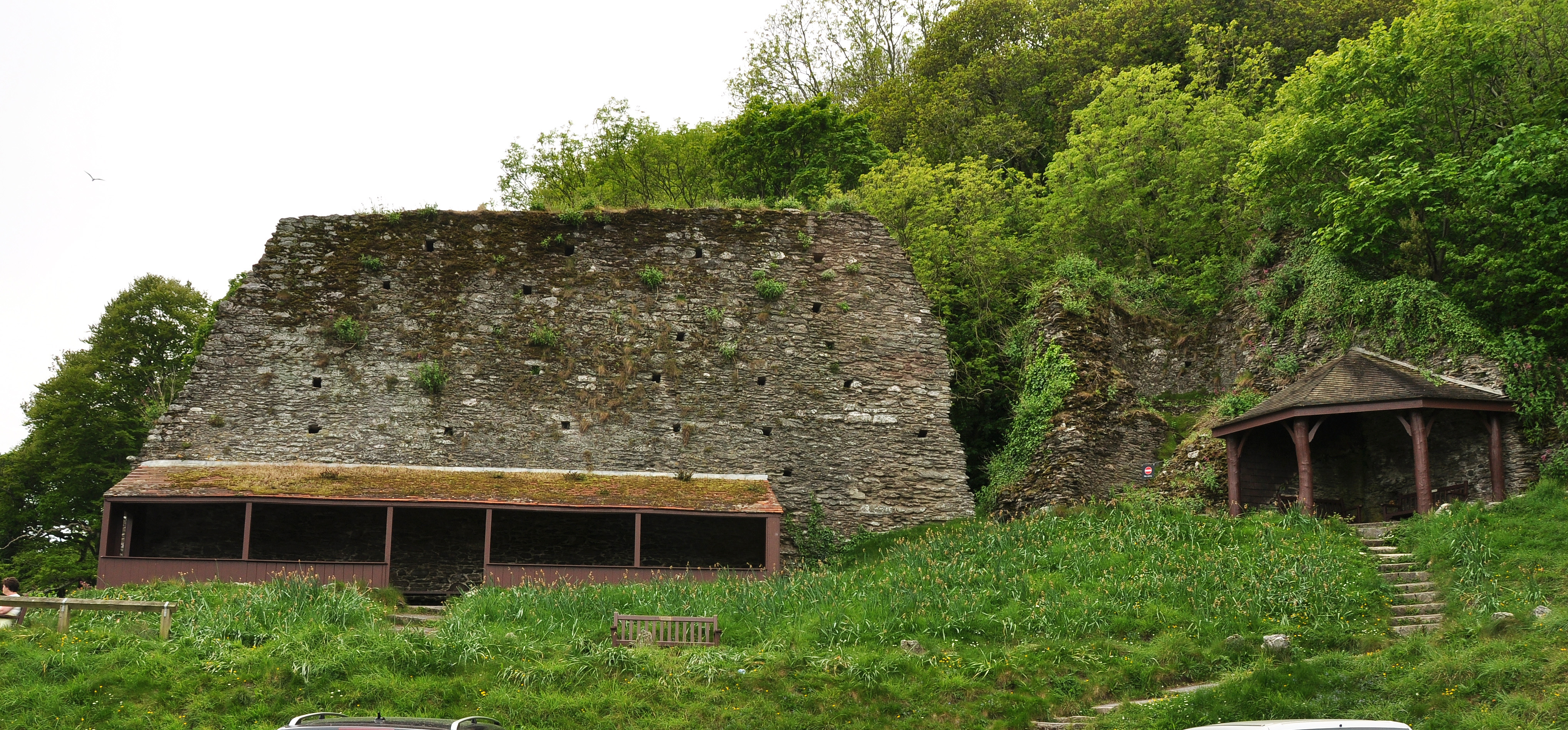 Walls of the Ruined Fortalice above Dartmouth Castle in Devon.